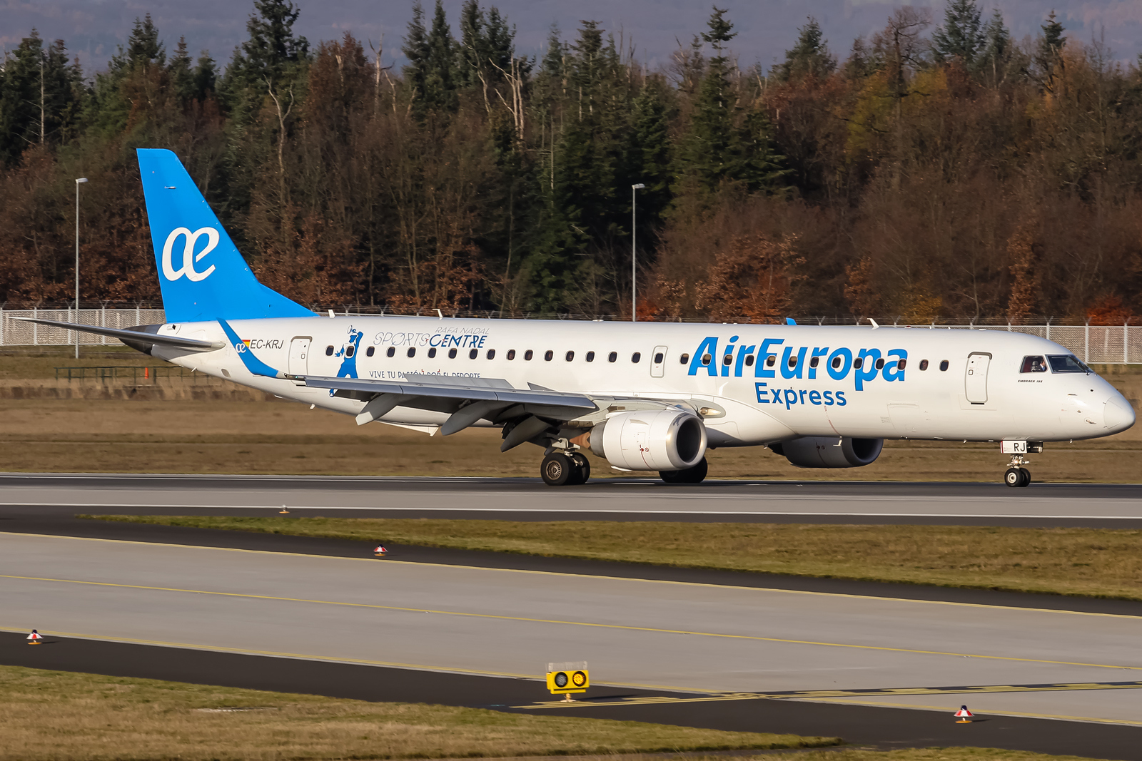 EC-KRJ Air Europa Express Embraer ERJ-195LR coming in from Madrid (MAD / LEMD) @ Frankfurt - International (FRA / EDDF) / 24.11.2016